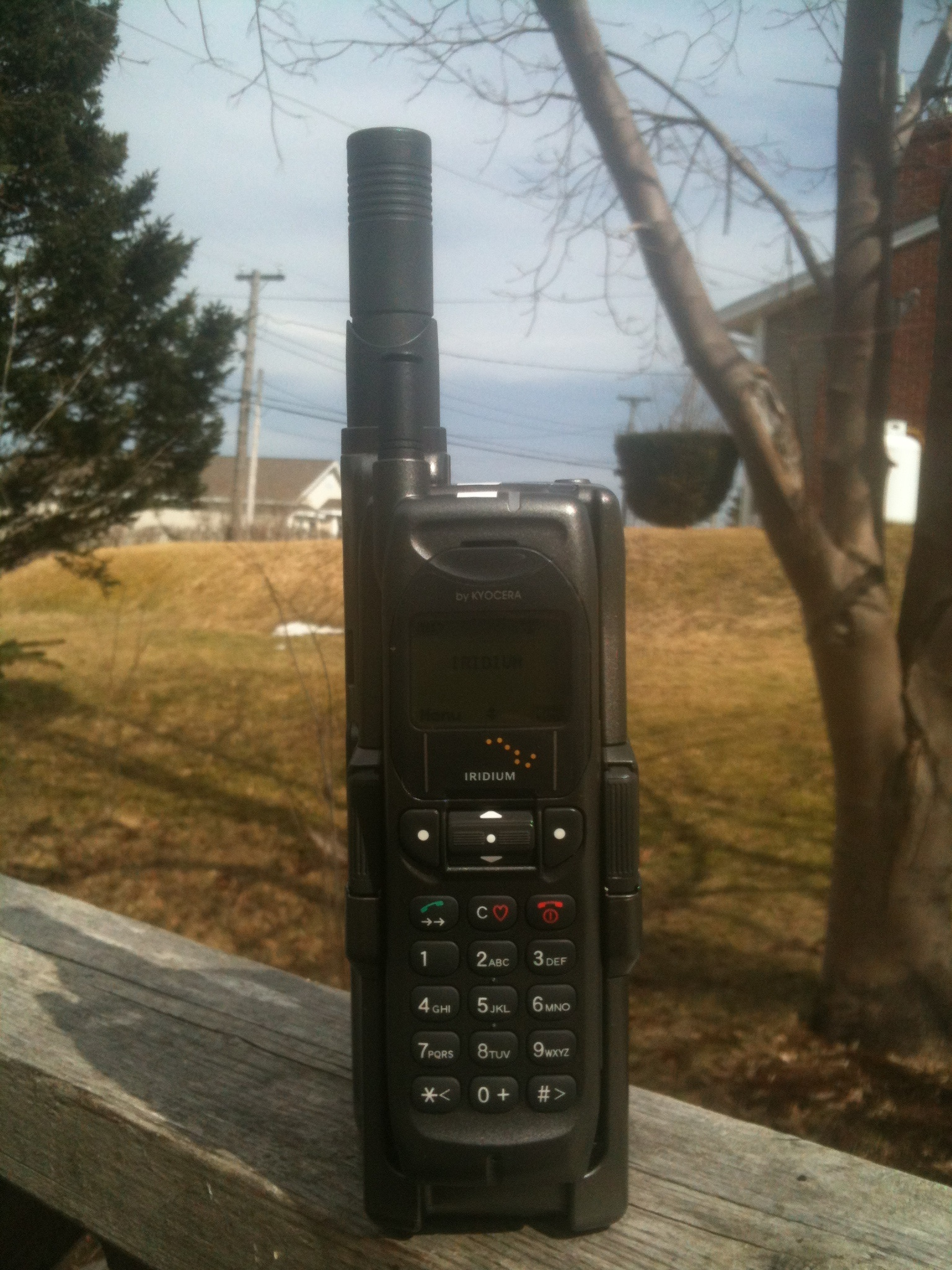 Iridium Phone Kyocera ki-g100 GSM and SD-66 Iridium adapter. This is one of the first iridium satellite phones manufactured for use on the iridium global satellite communications network.